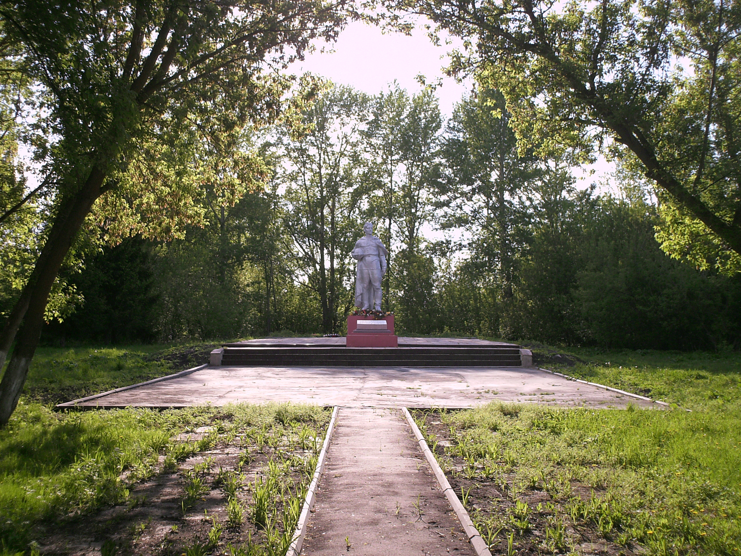 The monument of the Unknown soldier in the village of Golitsyno Nizhnelomovskiy district of the Penza region.